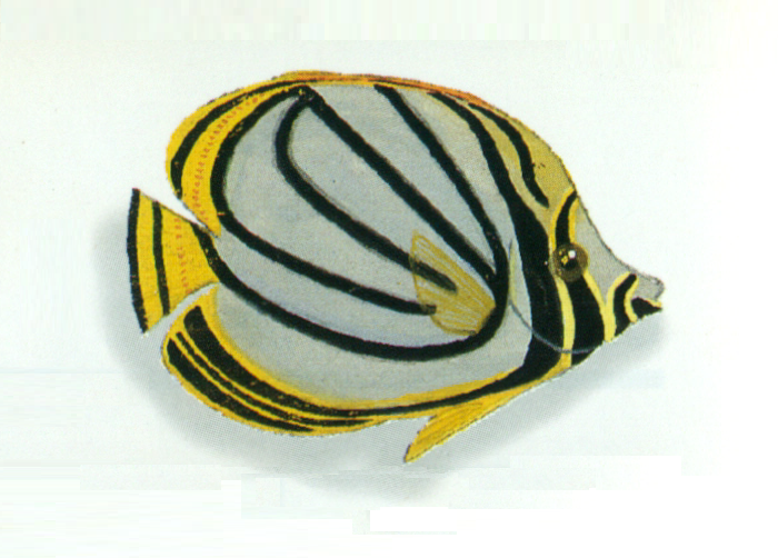 Chaetodon meyeri